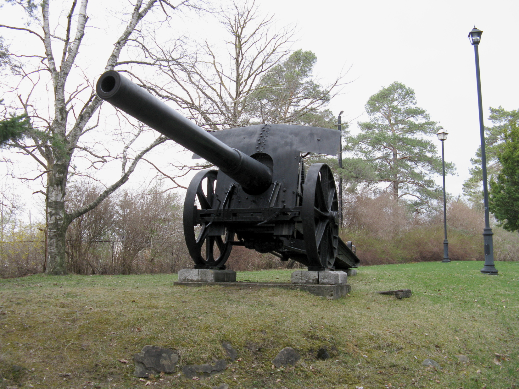 German en:15 cm L/40 Feldkanone i.R. displayed near Woodbridge Memorial Tower at Woodbridge, Ontario, Canada. Gun data